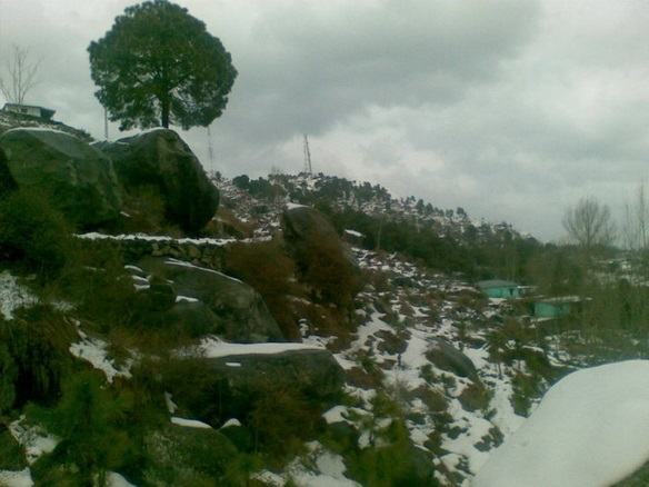 yadgar mong